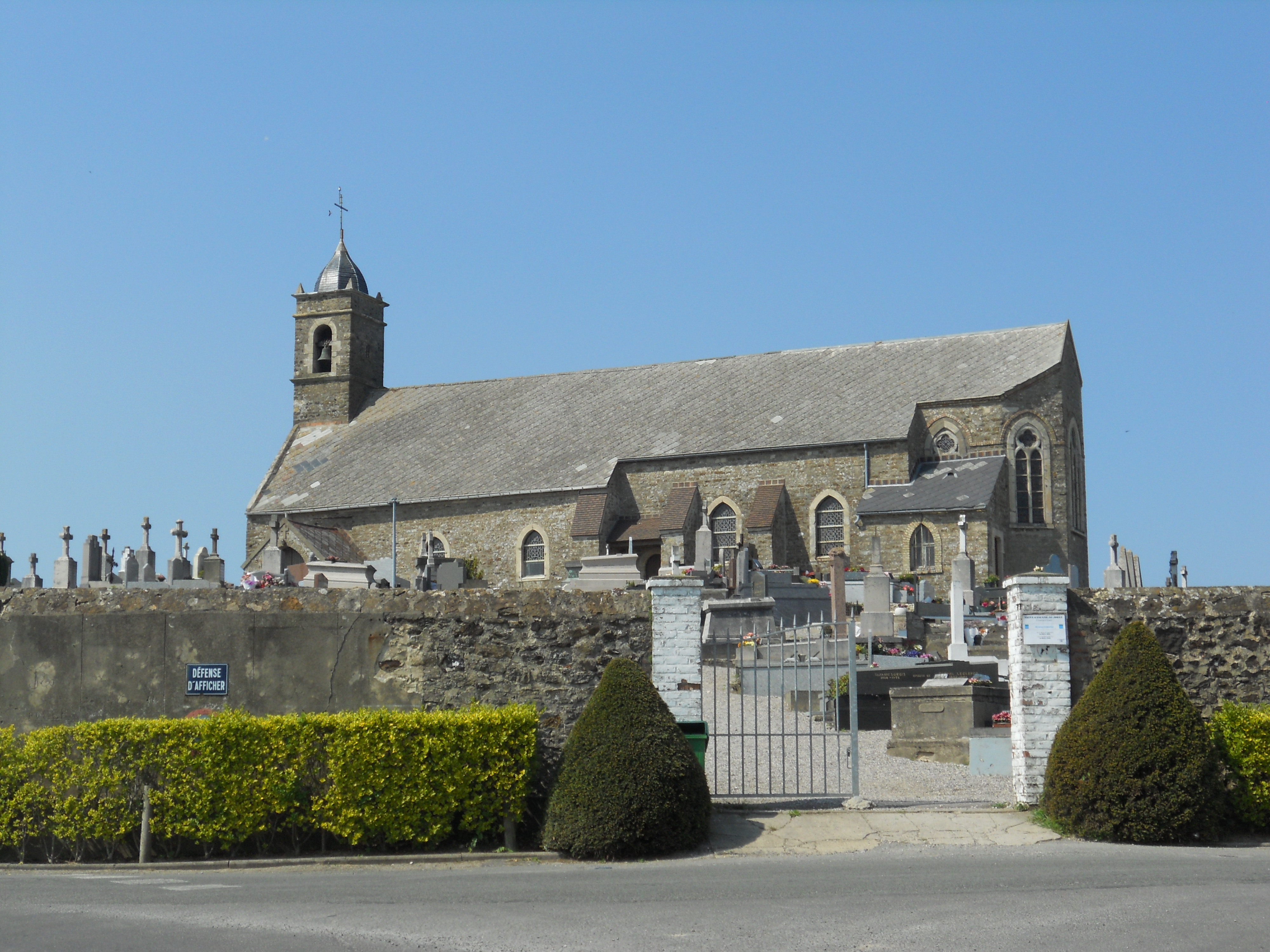 The Little Church of Ecault